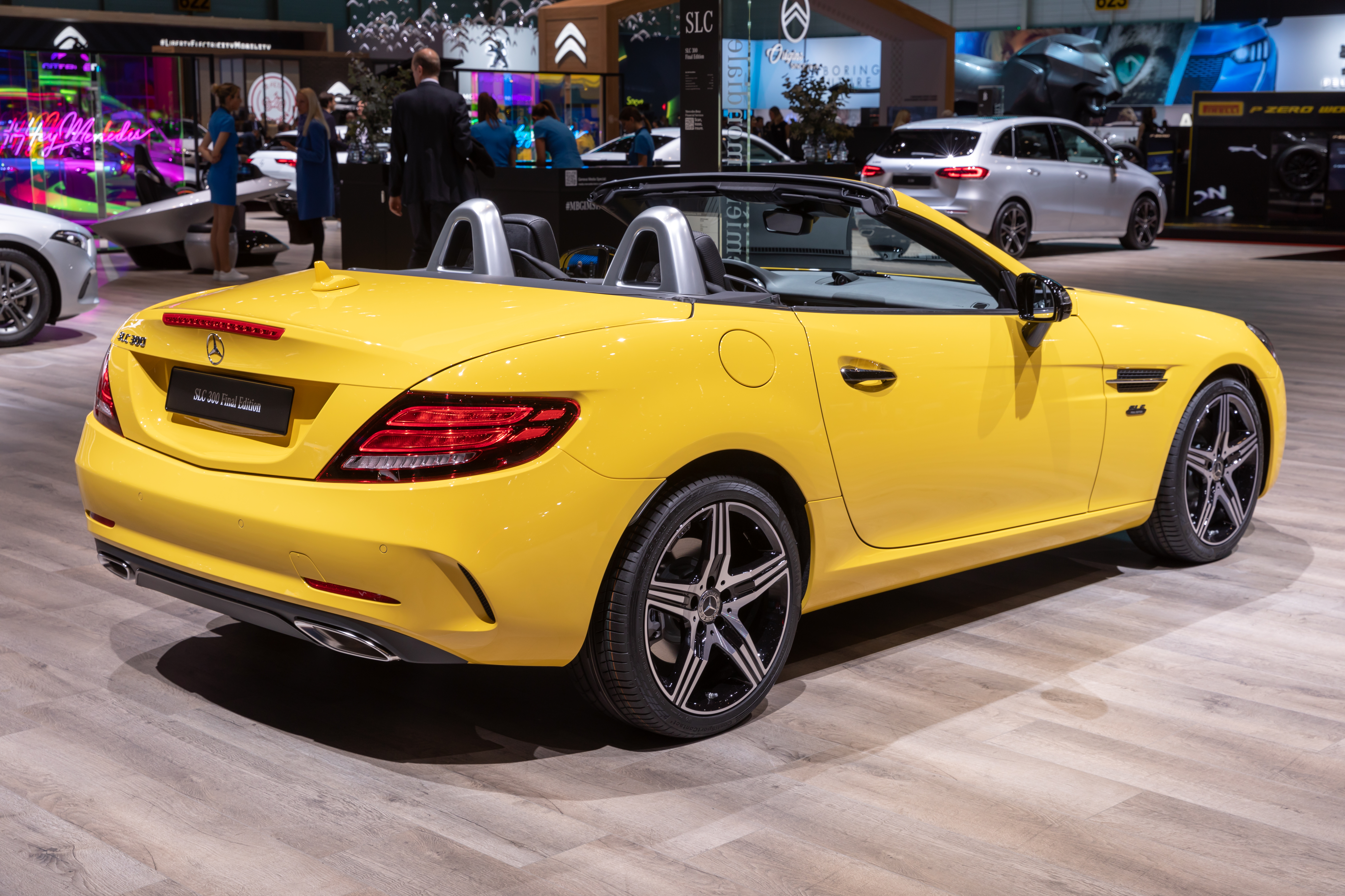 Mercedes-Benz SLC 300 Final Edition, Geneva International Motor Show 2019, Le Grand-Saconnex